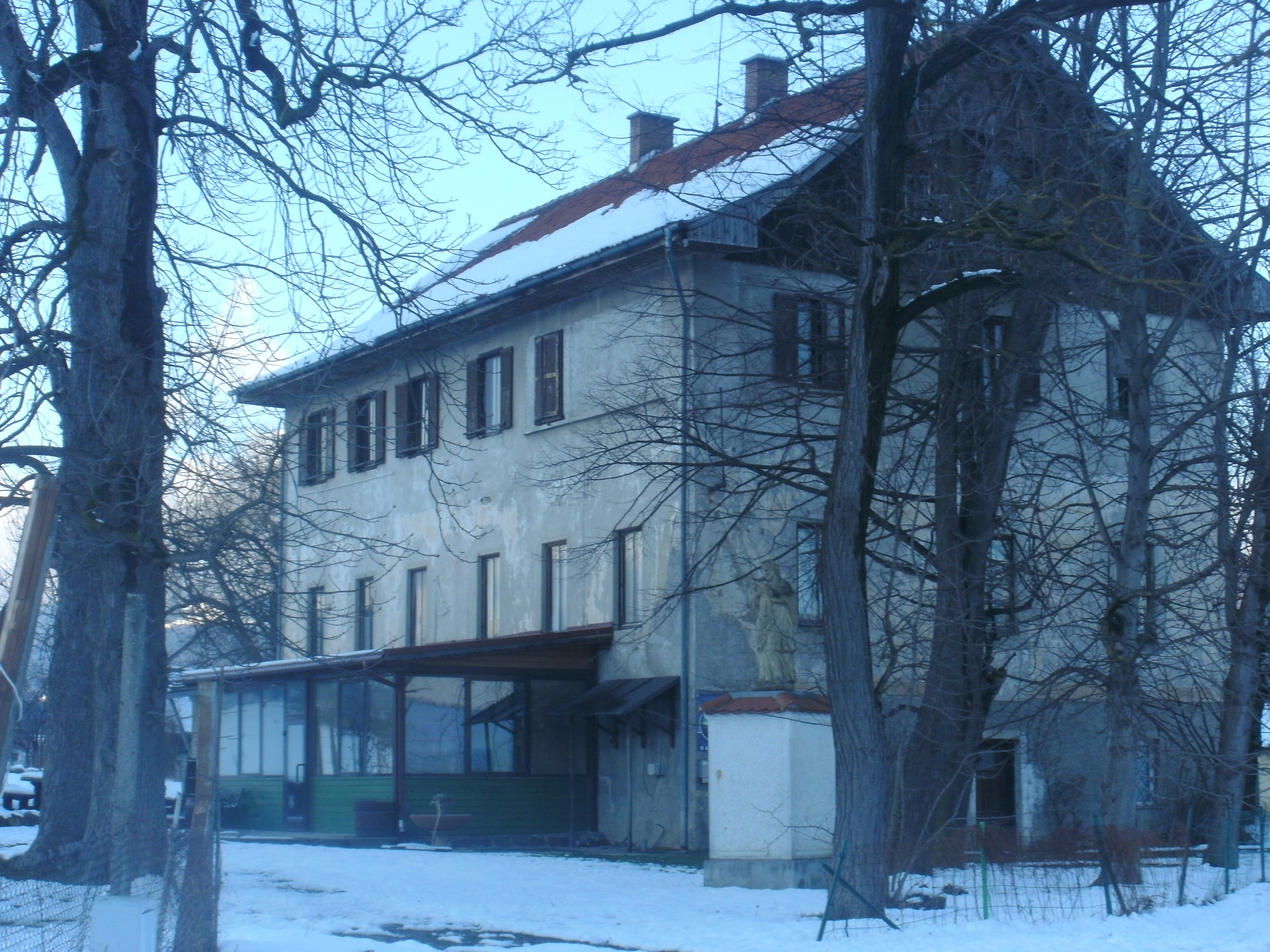 Dobje Manor (Dobiehof), Slovenske Konjice, Slovenia